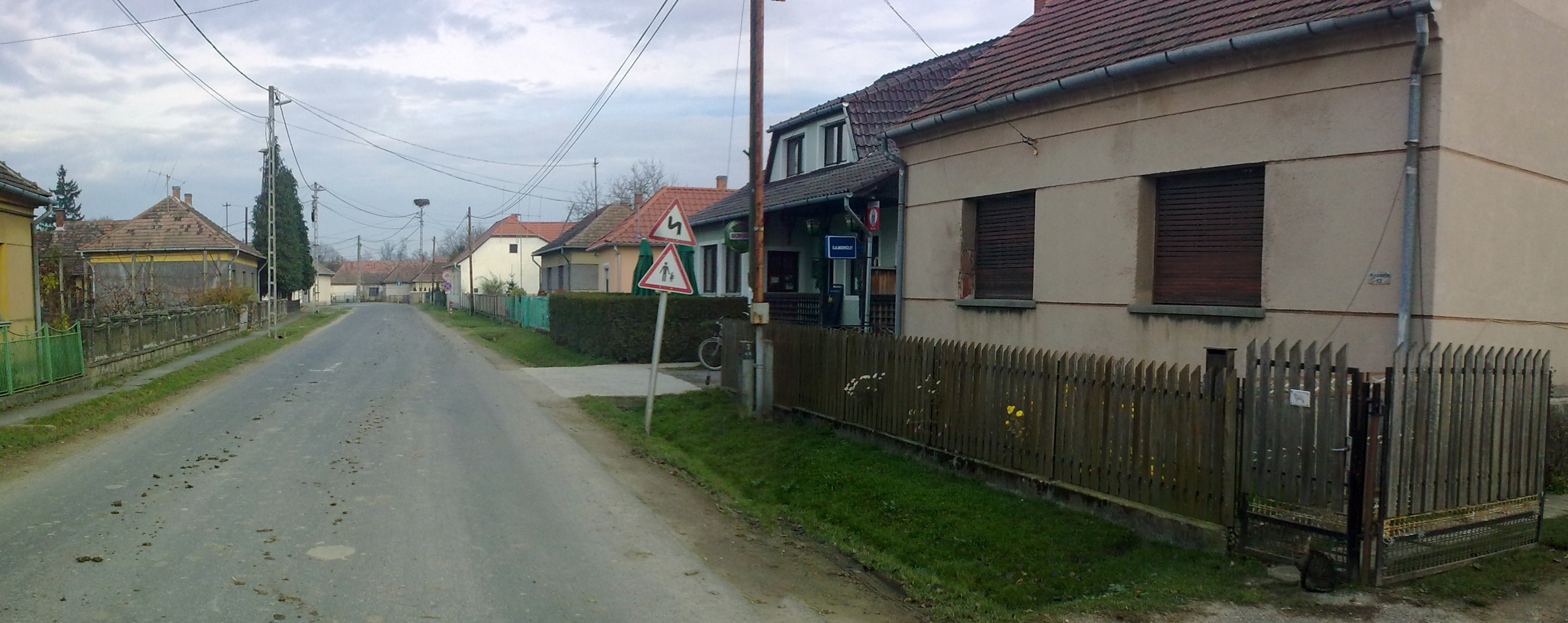 Kossuth utca